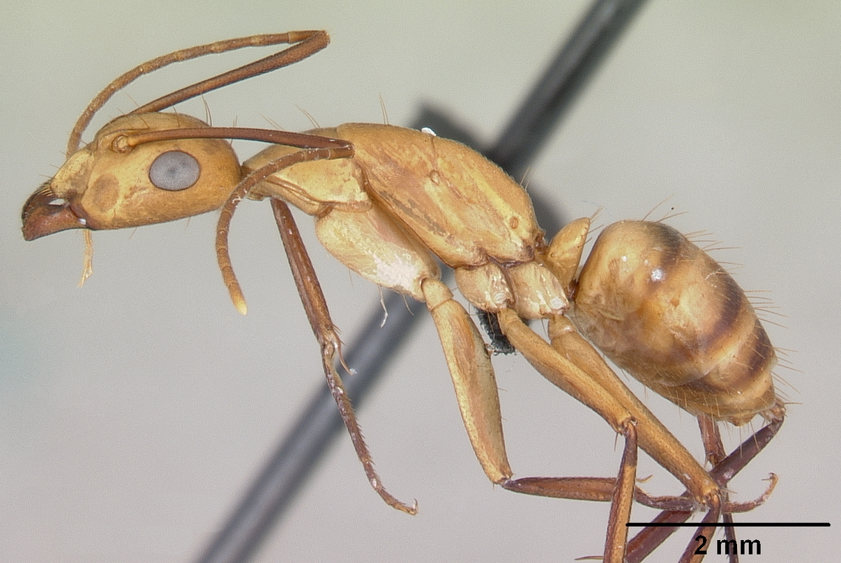 Profile view of ant Camponotus variegatus specimen casent0103245.